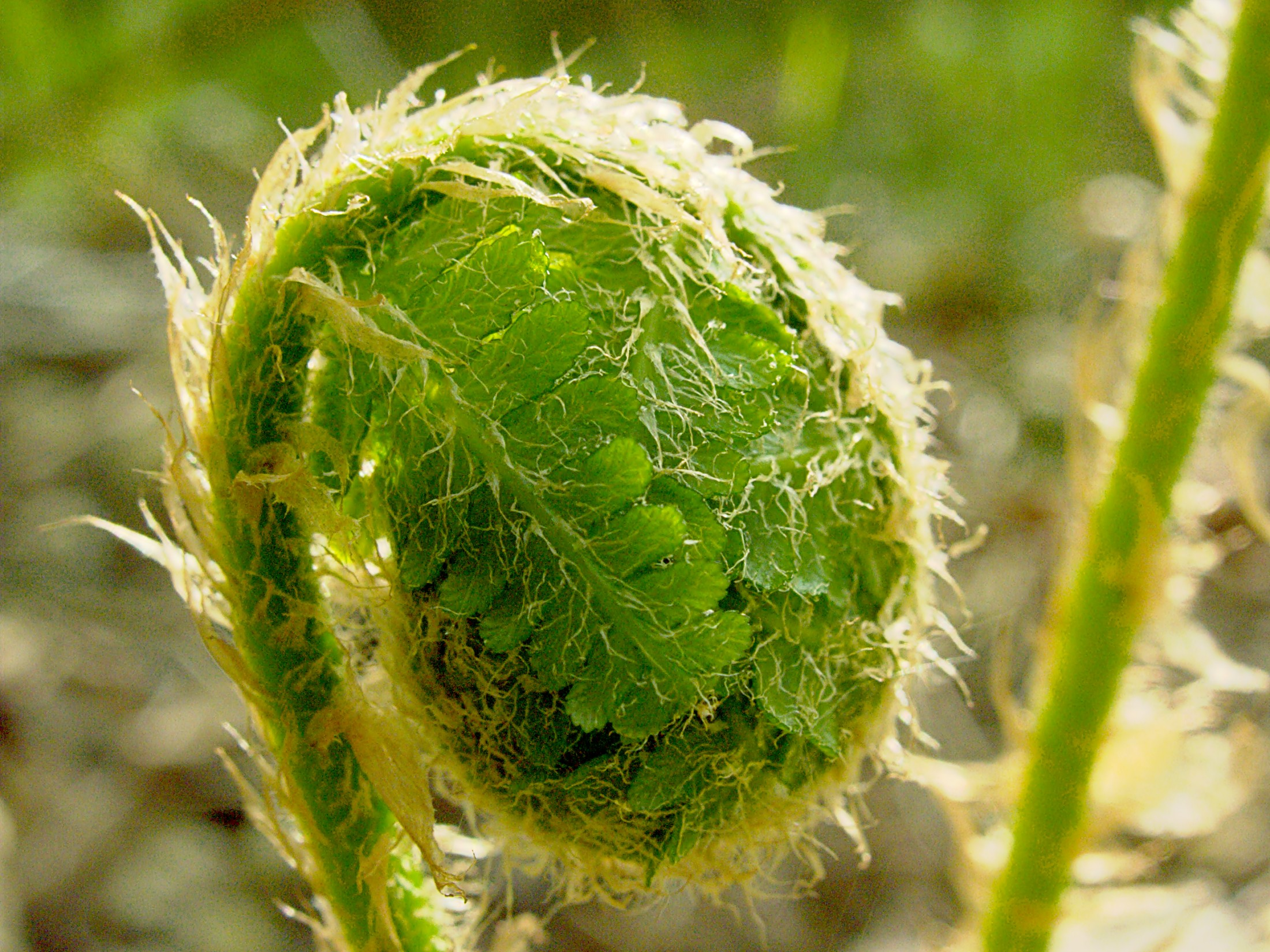 Name: Athyrium filix-femina. Family: Athyriaceae. Location: Münster, NRW, Germany